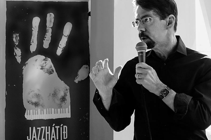 Fred Hersch at Reykjavik Jazz Festival in Iceland 2017